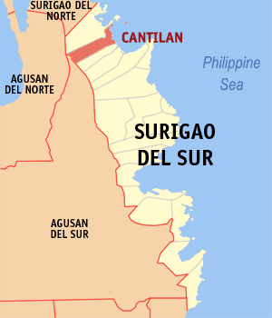 Map of the Surigao del Sur showing the location of Cantilan